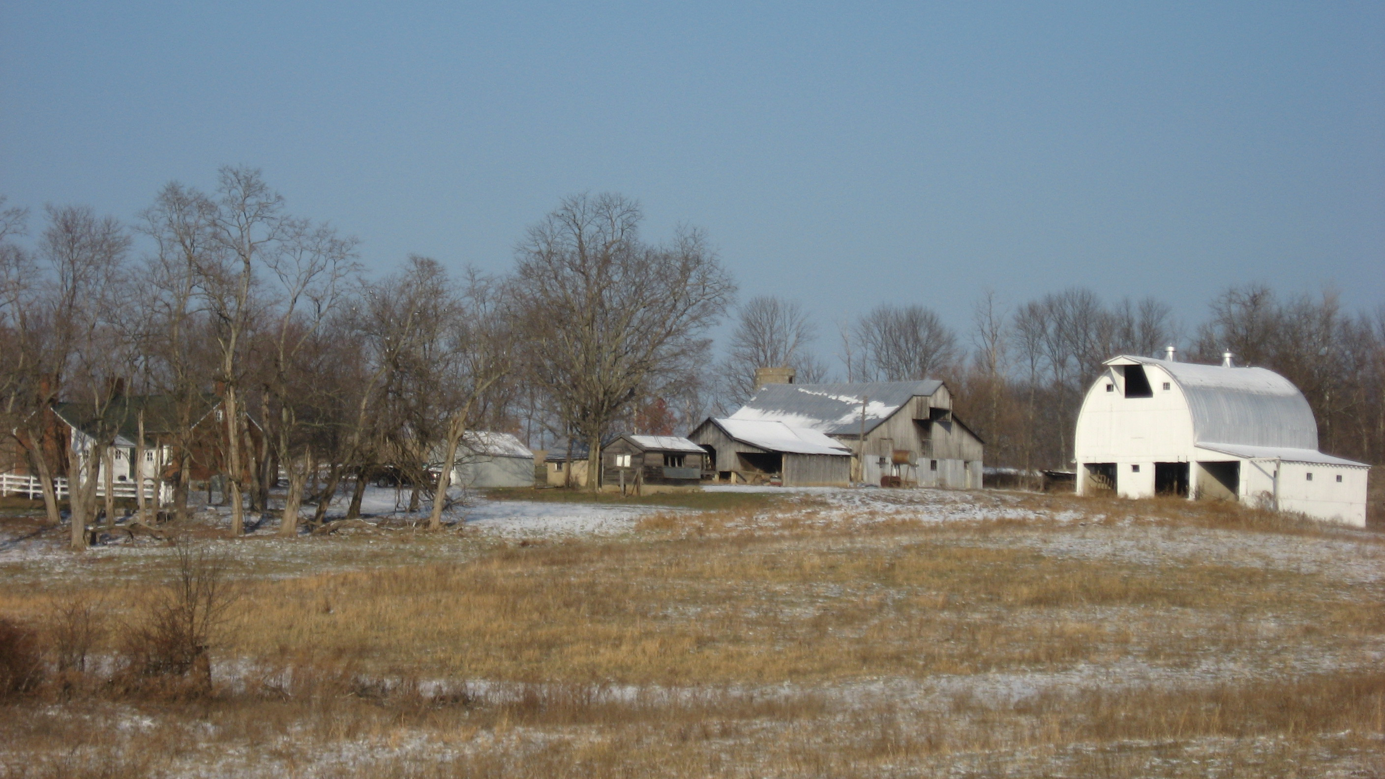 Overview of the Helton-Mayo Farm, located on the northern side of State Road 58 near its intersection with Boyd Lane near the city of Bedford along Zehringer Road north of Fort Recovery in Shawswick Township, Lawrence County, Indiana, United States. The farm complex is listed on the National Register of Historic Places.